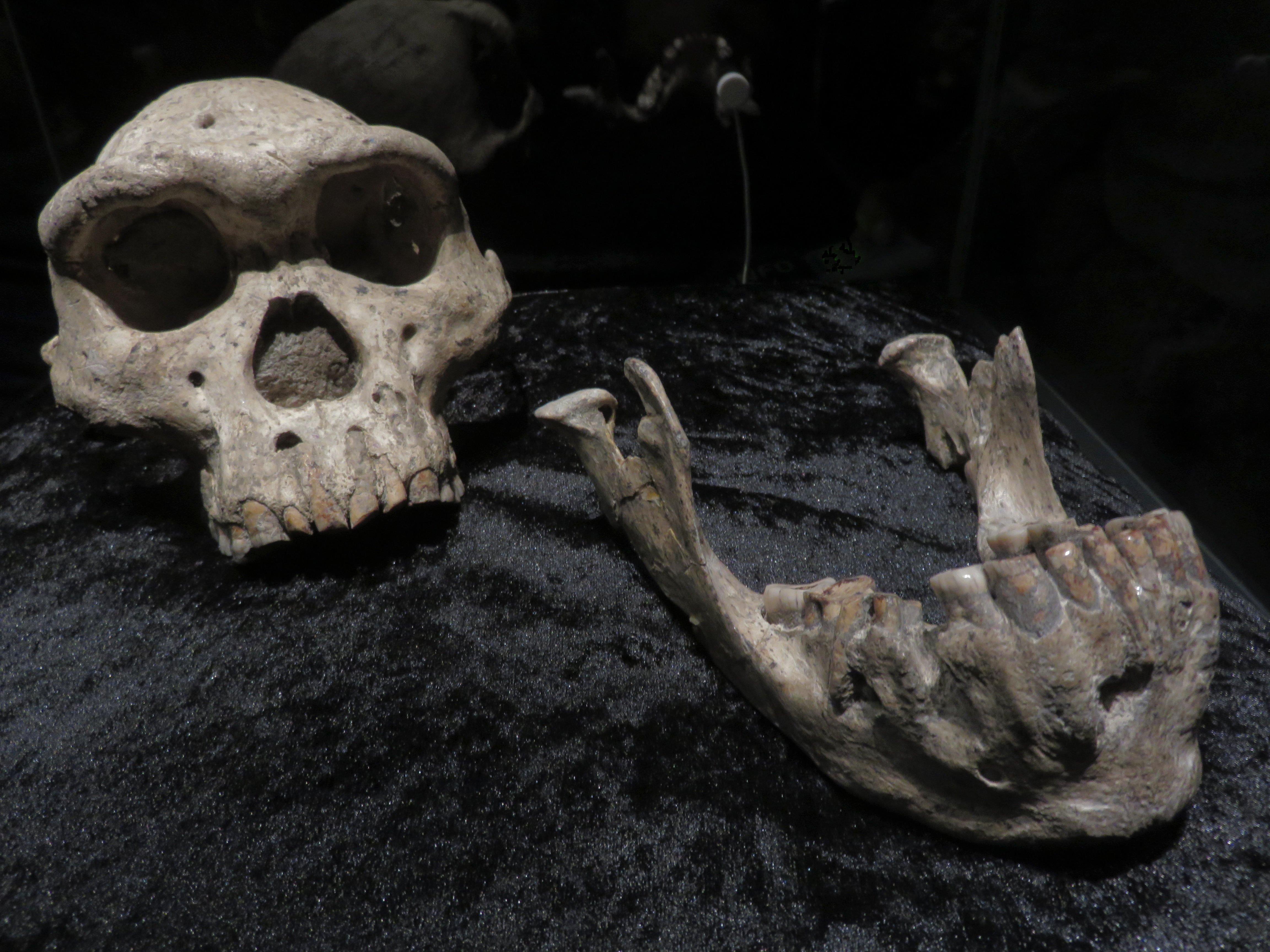 Dmanisi cranium D4500 + lower jaw D2600 (= Skull 5, Original)